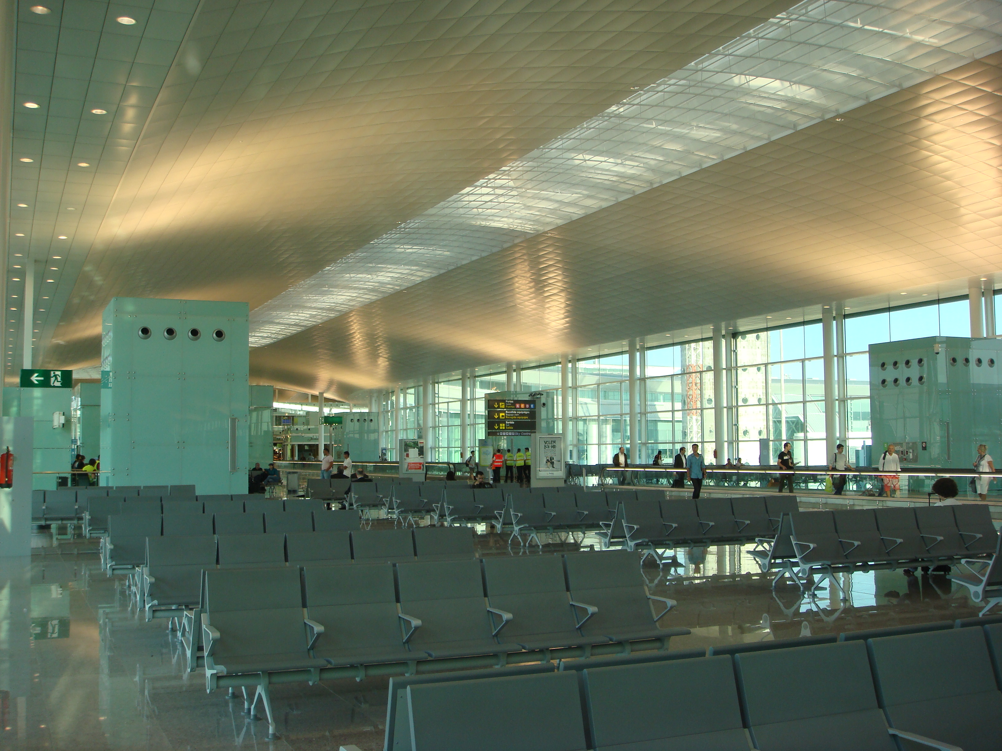 View of the T1 Barcelona Airport